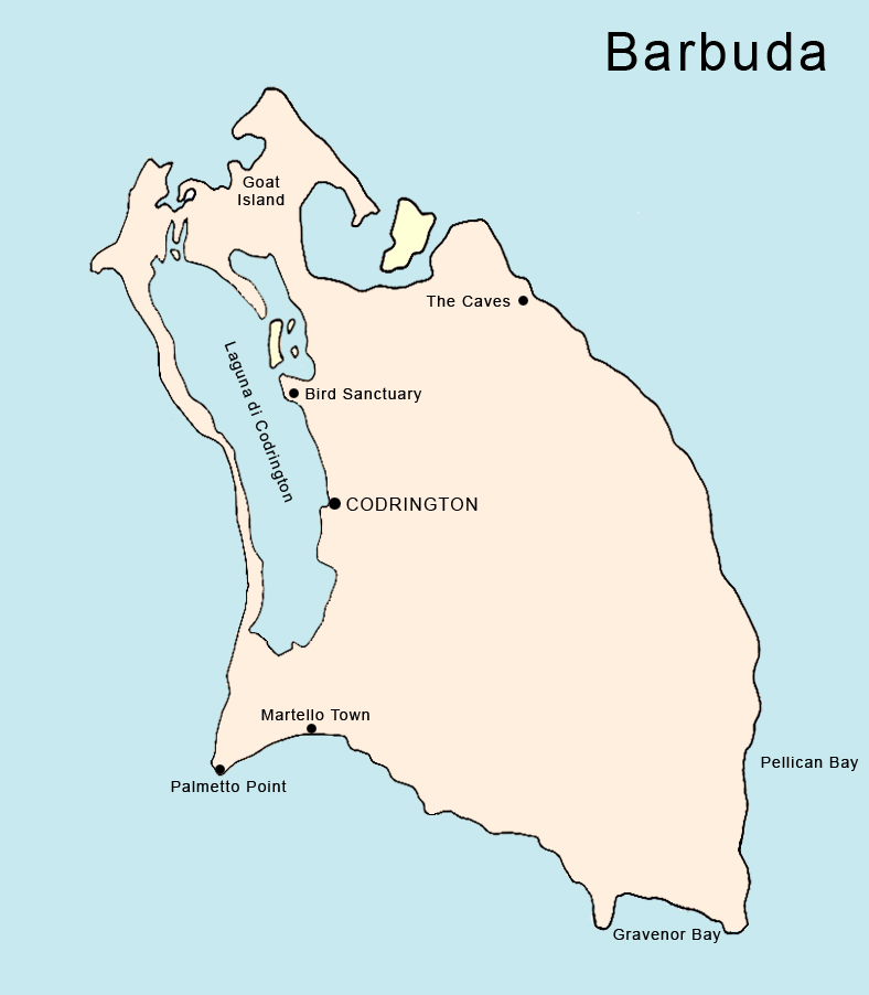 Approximate map of Barbuda, based on several images maps